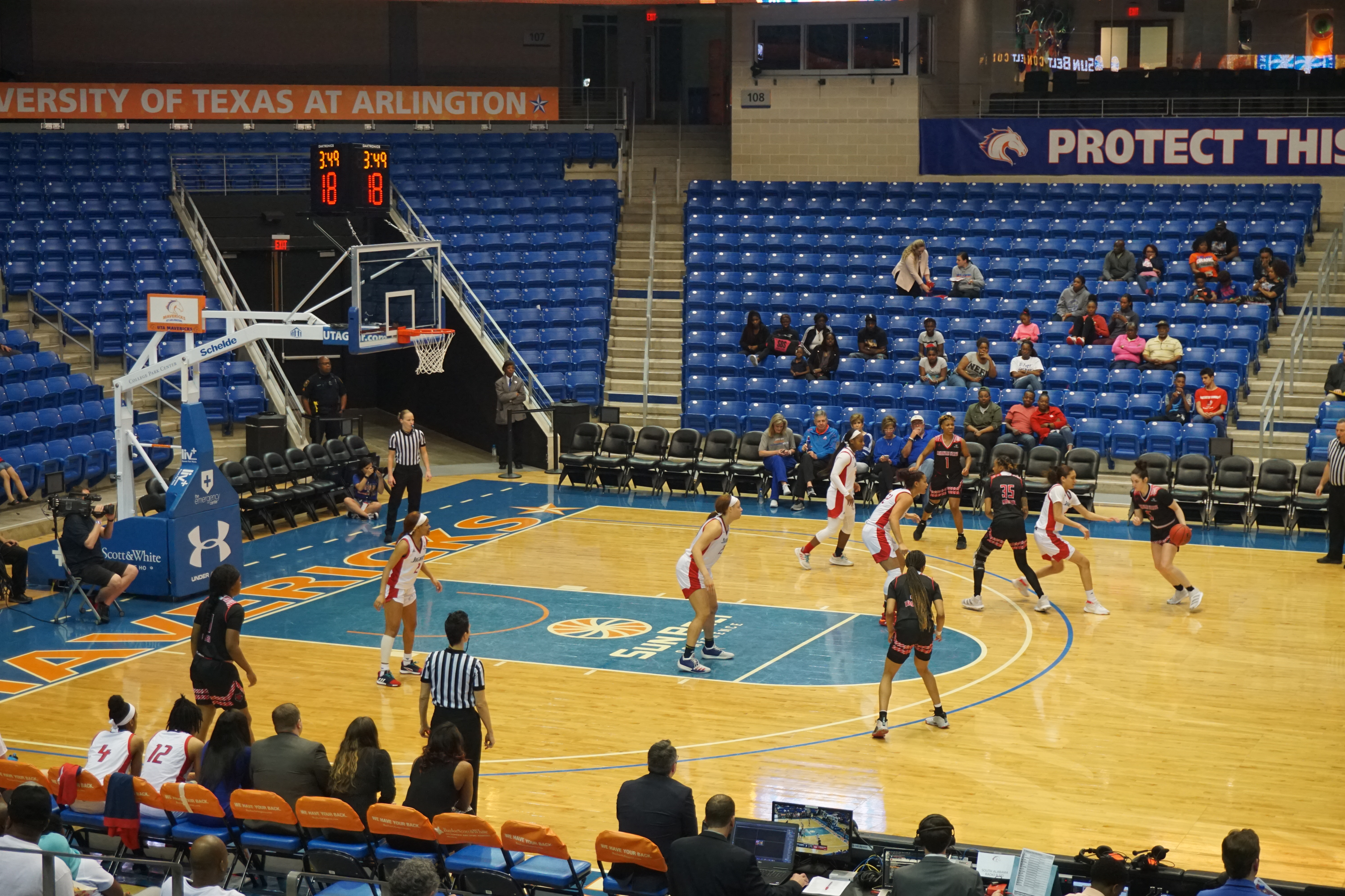 In-game action during the Arkansas State Red Wolves vs. South Alabama Jaguars women's basketball game at the 2020 Sun Belt Conference Women's Basketball Tournament at College Park Center in Arlington, Texas (United States). South Alabama won 82–71.